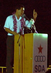 Steve Chia delivering a typically fiery speech at the Singapore Democratic Alliance (SDA) rally at Choa Chu Kang Park, Singapore, on Tuesday, 2 May 2006, during the hustings for the 2006 general election. On election day, 6 May, he polled 39.63% of the votes, a marginal improvement from the previous election but not enough to spring a surprise victory over the People's Action Party.